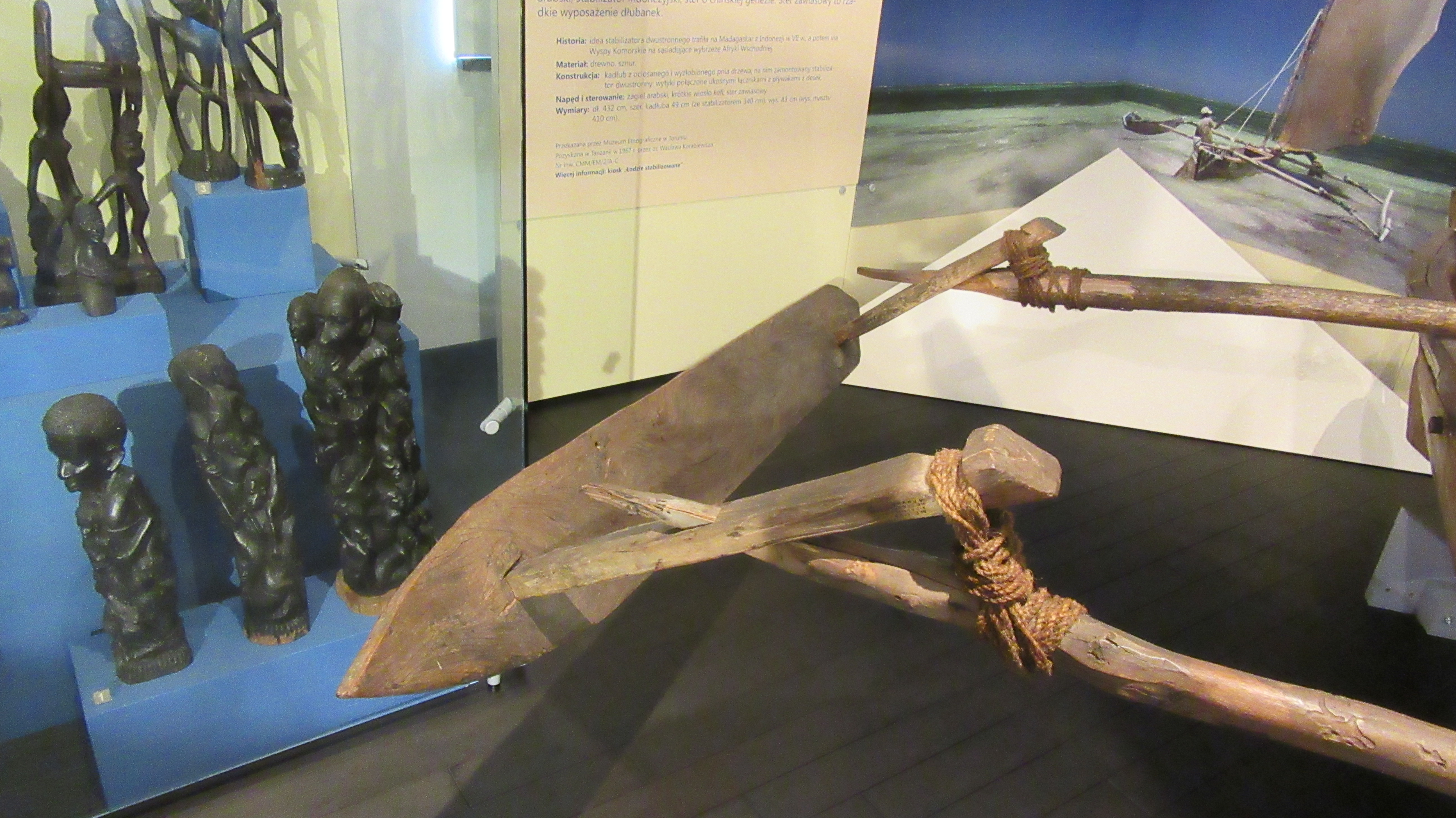 Ngalawa - traditional boat used in Tanzania and Zanzibar. Exhibit in National Maritime Museum in Gdańsk, Poland